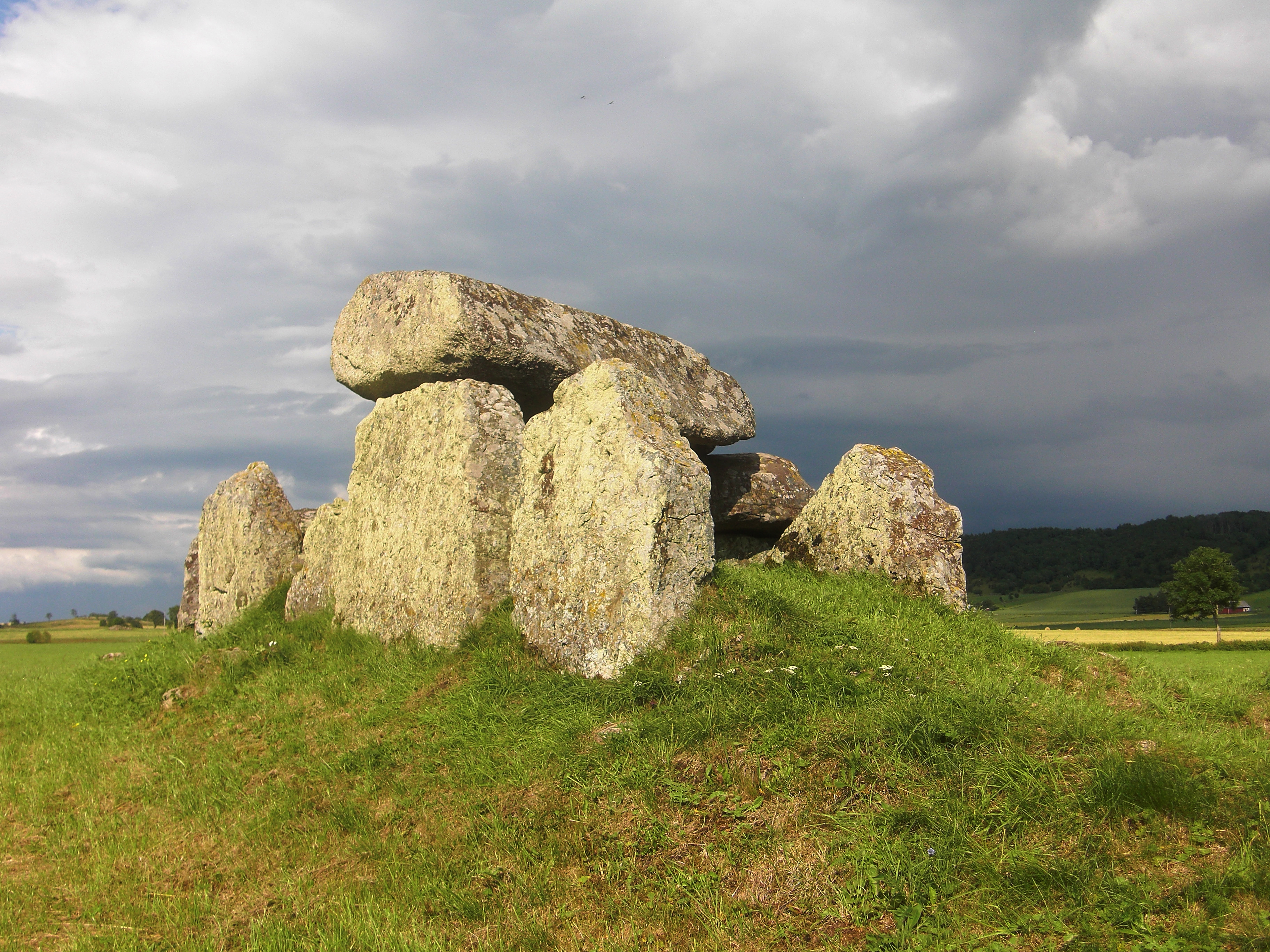 The Neolithic passage grave in Luttra (RAÄ number Luttra 15:1) in Falköping municipality, former Skaraborg county, Västergötland, Västra Götaland county, Sweden. In the background is the table mountain Ålleberg.